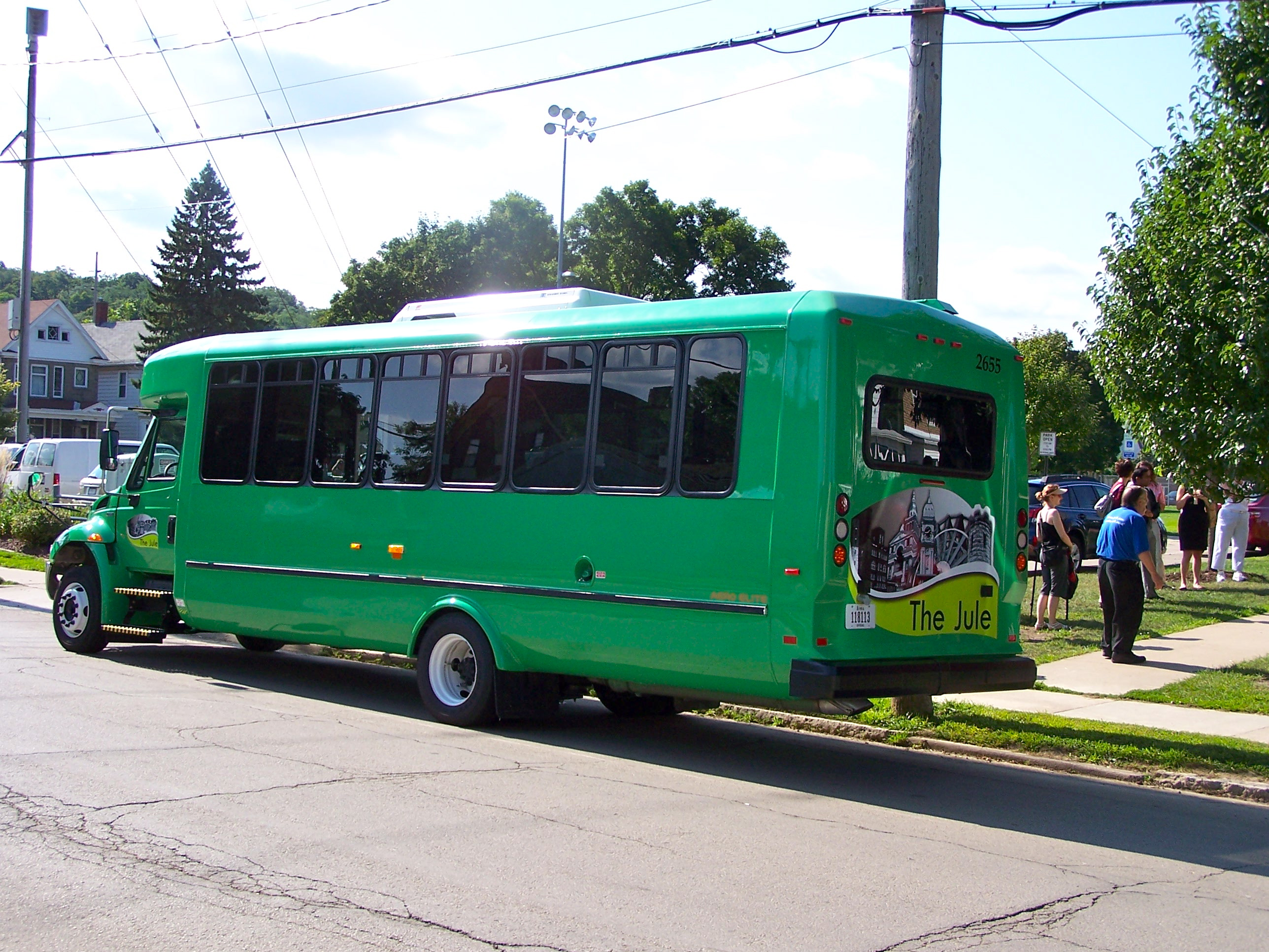 Jule medium duty bus on international chassis